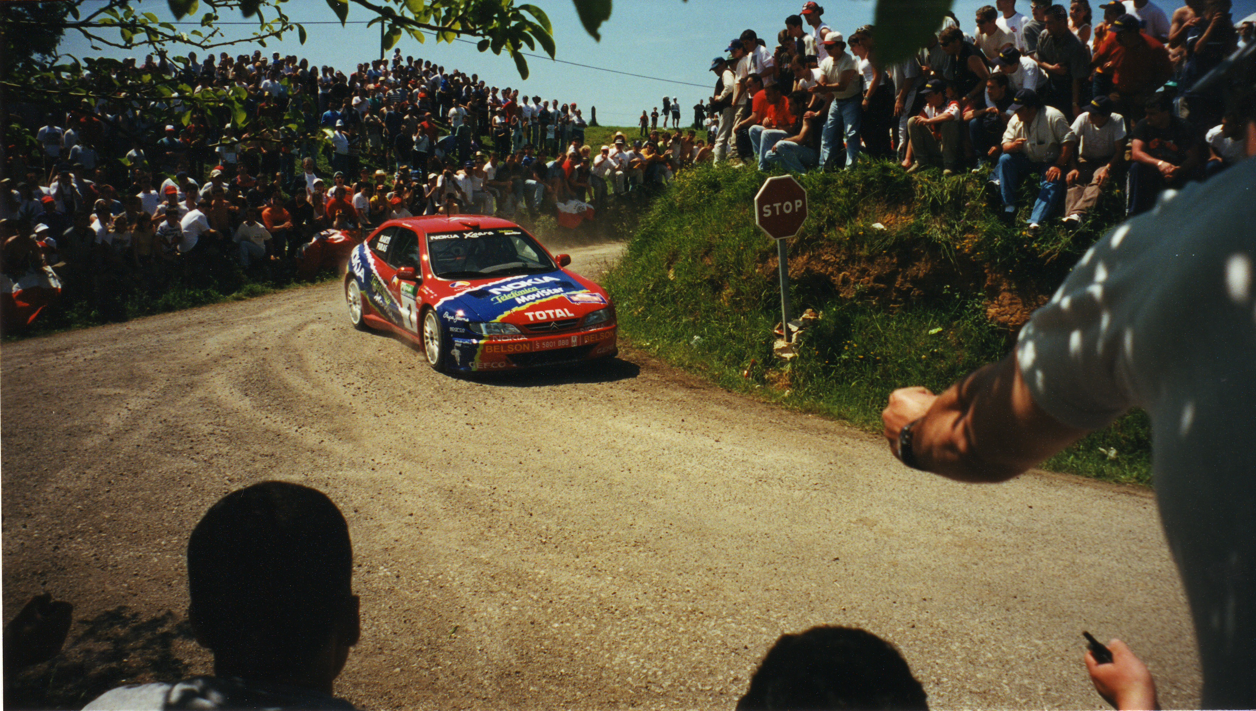 Jesús Puras driving a Citroën Xsara Kit Car at the 1999 Rallye Cantabria.